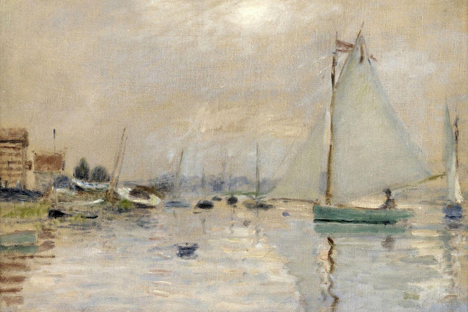 Picton Renoir | Picton Castle, Pembrokeshire, Wales